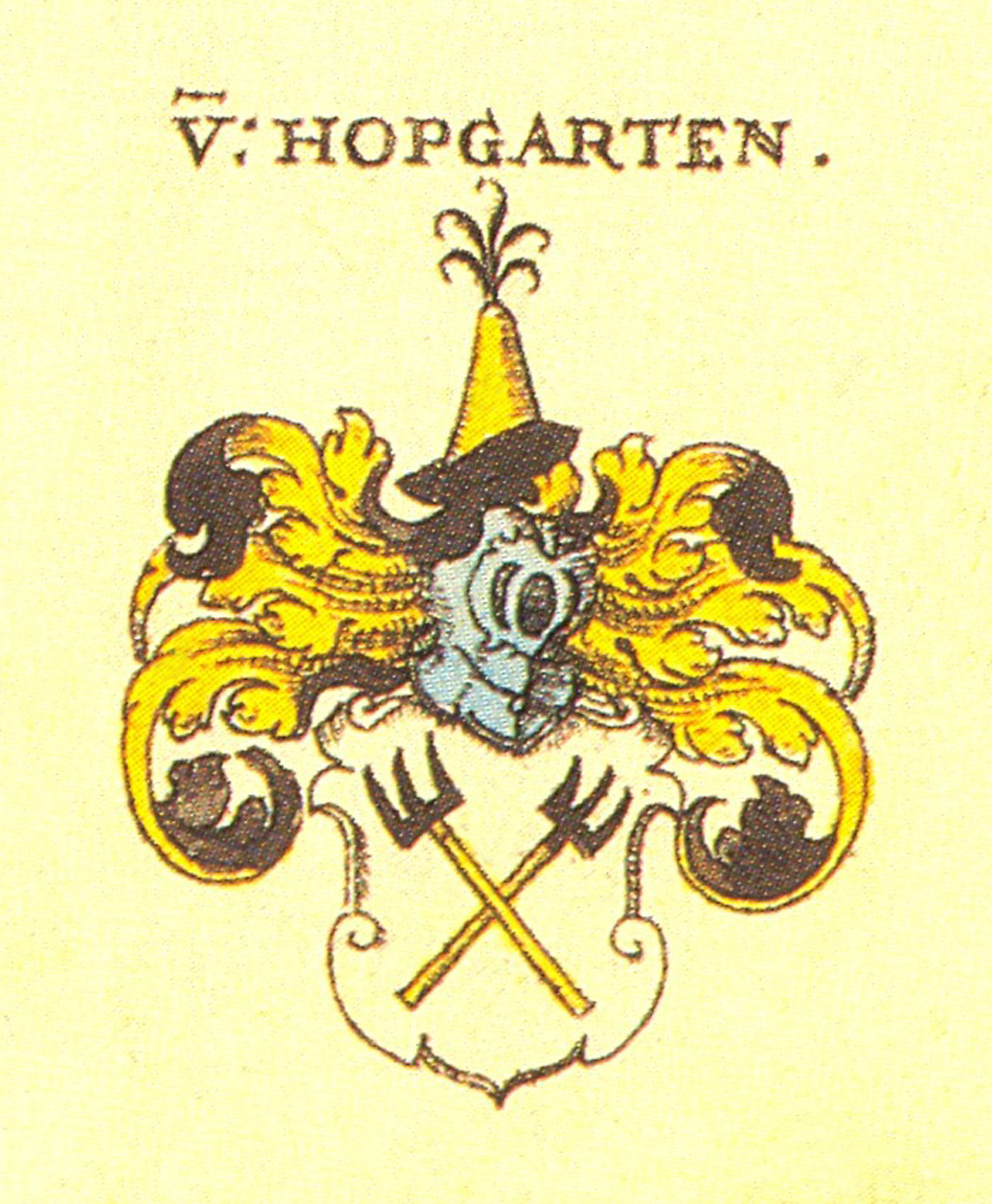 Coat of arms of Hopfgarten